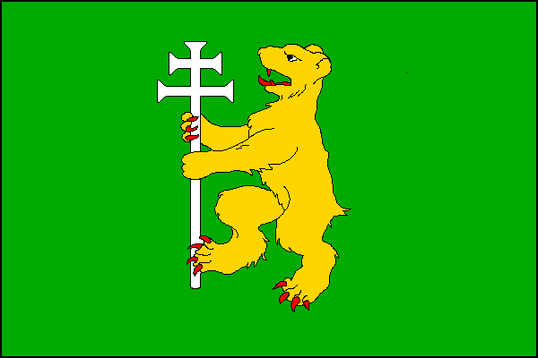 Municipal flag of Osvětimany market town, Uherské Hradiště District, Czech Republic.